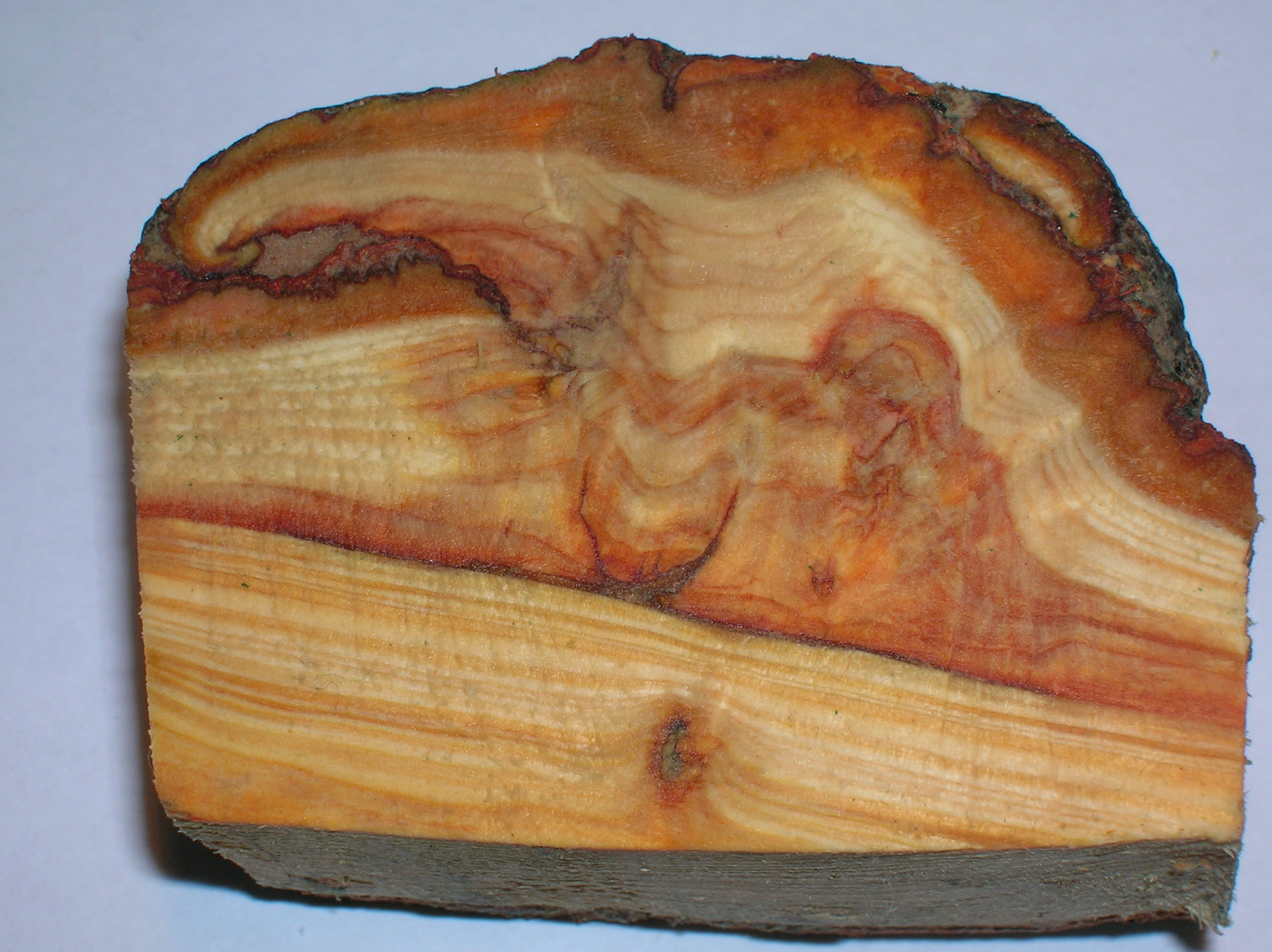 A longitudinal section of a Burr on a Larch.